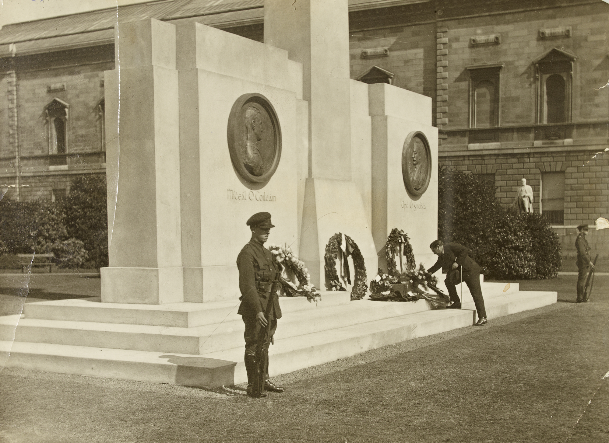 A monument most of us cannot recall seeing on Leinster Lawn??? A Story of now you see it now you don't. Please see the comments below about this Monument, it was short lived, it was poorly built, some might say that it did not pay the correct homage to the two men it was supposed to commemorate. An Interesting example of early Free State thinking. Photographer: W.D. Hogan Date: 15th August 1922 corrected to 15th August 1923 NLI ref. HOG 119 You can also view this image, and many thousands of others, on the NLI’s catalogue at